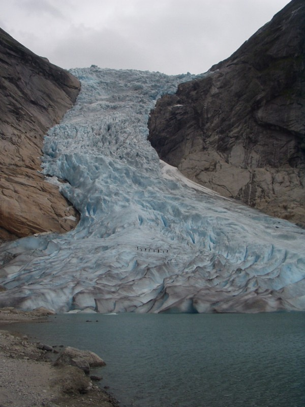 The Briksdal Glacier is a part of the Jostedal Glacier National Park. The glacier descends from a height of 1200m to the narrow Briksdal Valley.